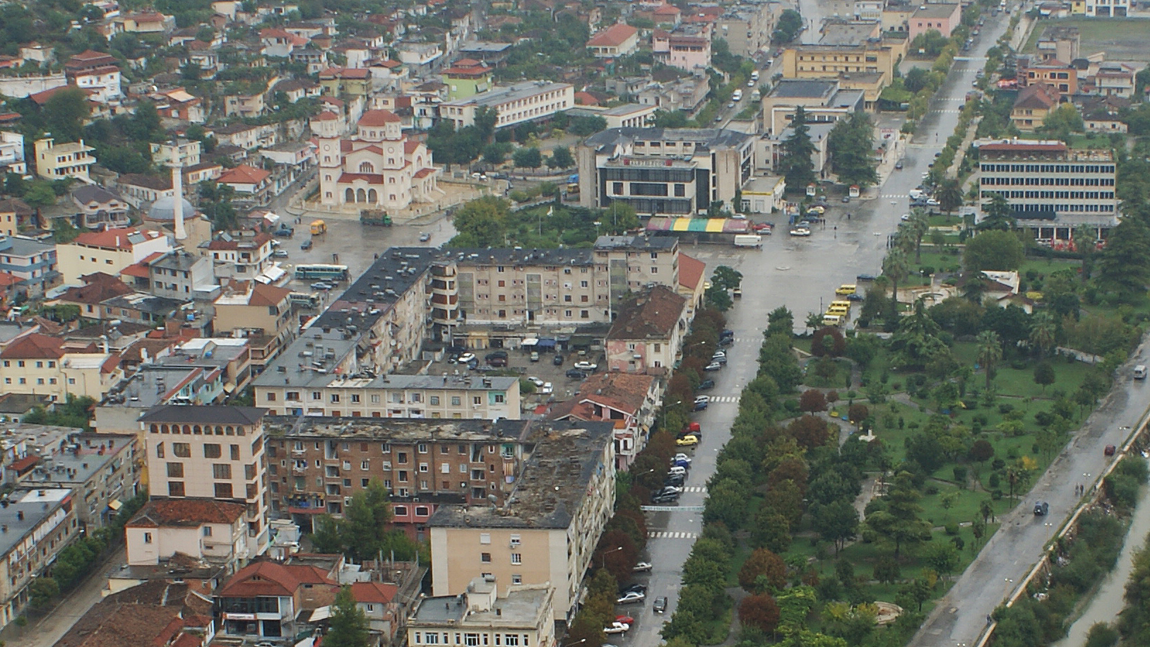 Main square of Berat, Albania, with Lead Mosque, Orthodox Cathedral and the Hotel Tomorri to the right on a rainy day